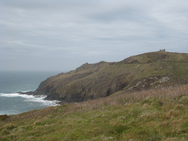 View of Kenidjack Castle from the SW Coastal Path